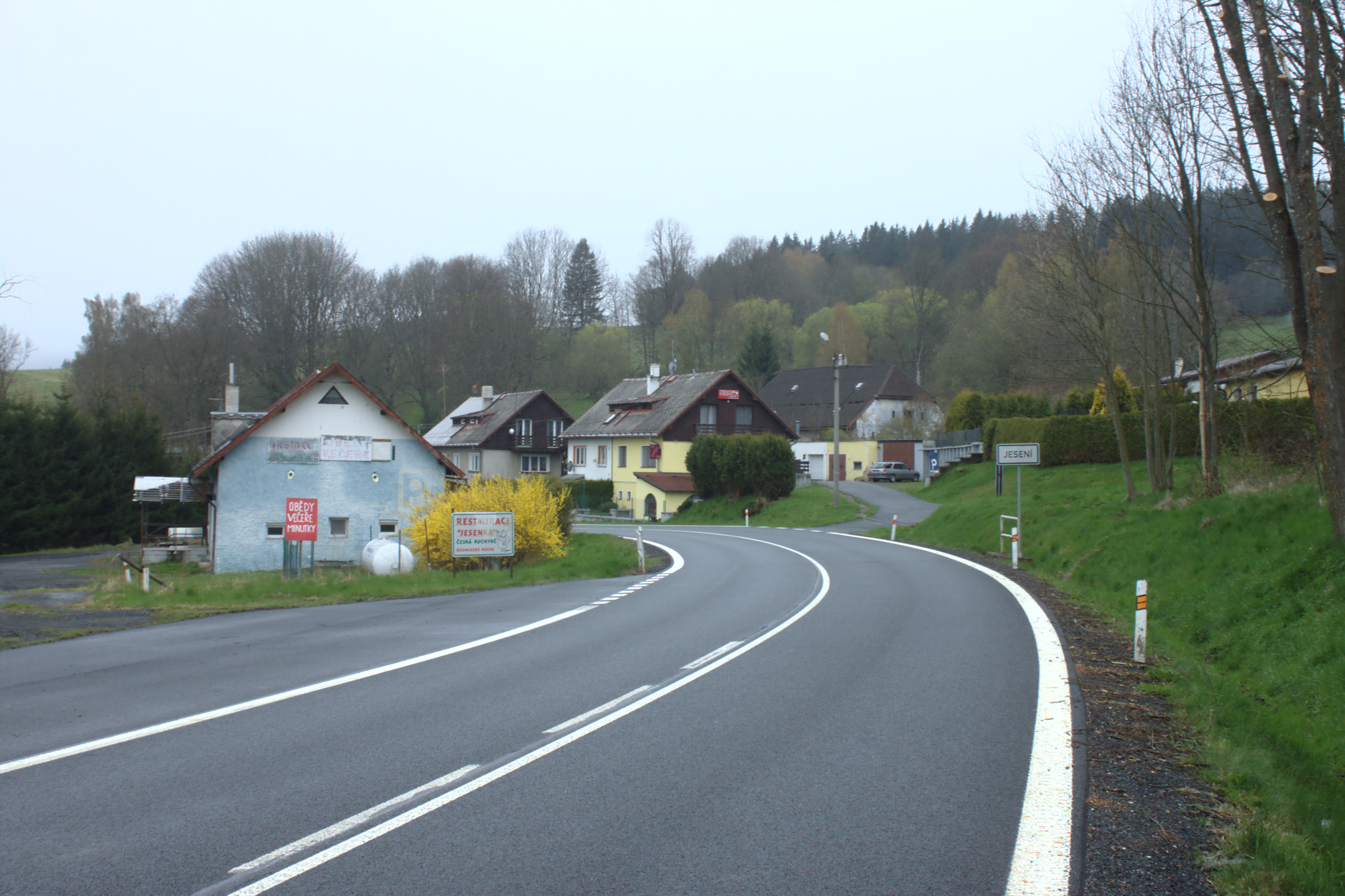 Main road in the village of Jesení, Plzeň Region, CZ